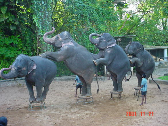 Elephant Dance at Dehiwala Zoo